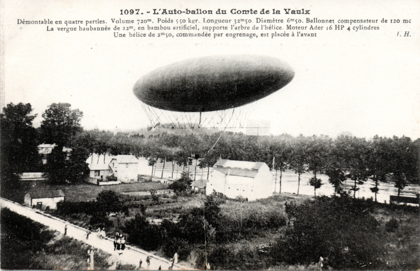 French non-rigid airship Comte de la Vaulx [N° 2] in 1906 - vintage postcard published by J.Hauser in 1908.